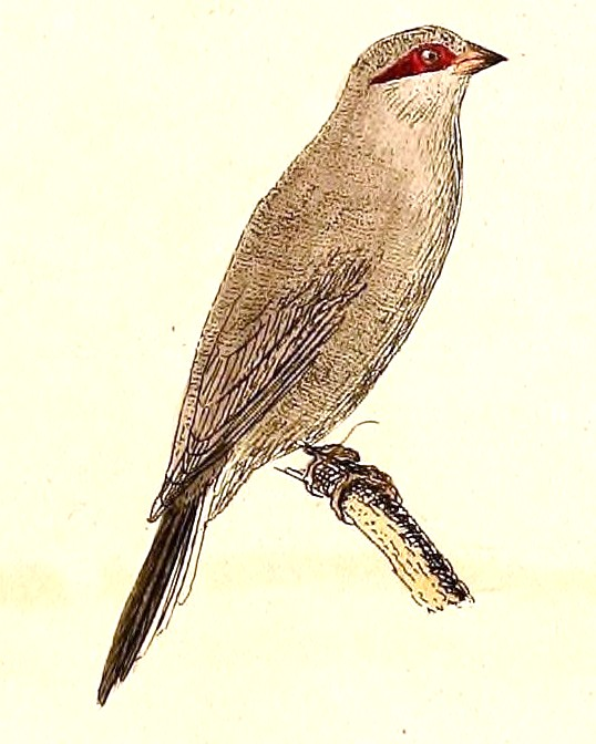 « Fringilla cinerea » = Estrilda troglodytes (Black-rumped Waxbill)